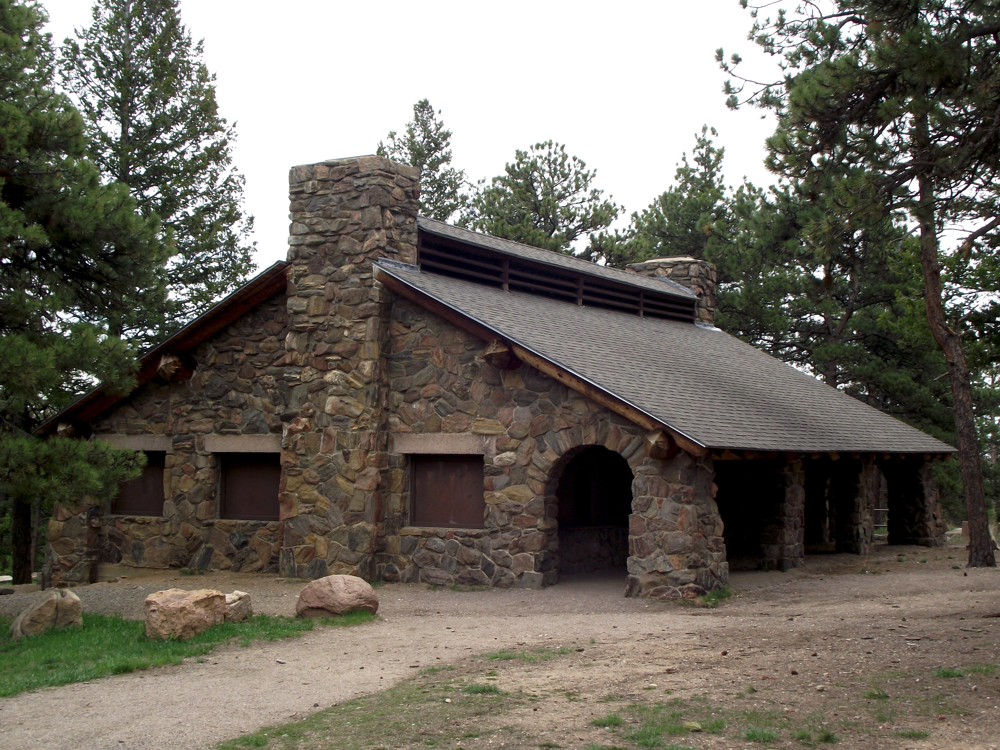 Picnic Shelter built by Civilian Conservation Corps in Genesse Park, Jefferson County, Colorado.